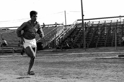 20 YEAR OLD AMOS GROZINOVSKY WILL REPRESENT ISRAEL IN THE FORTHOOMING OLYMPIC GAMES, IN THE 100 AND 200M RACES. D536-090 pic id